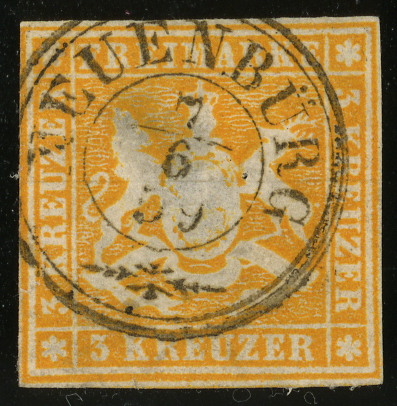 Kingdom of Wurtemberg 3 kreuzer stamp, issue 1857 (with visible horizontal silk thread), 3-rings cancelled at NEUENBÜRG in 1859.